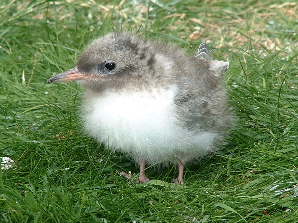 Photograph of an arctic tern (sterna paradisaea) chick. Taken on Lindisfarne.